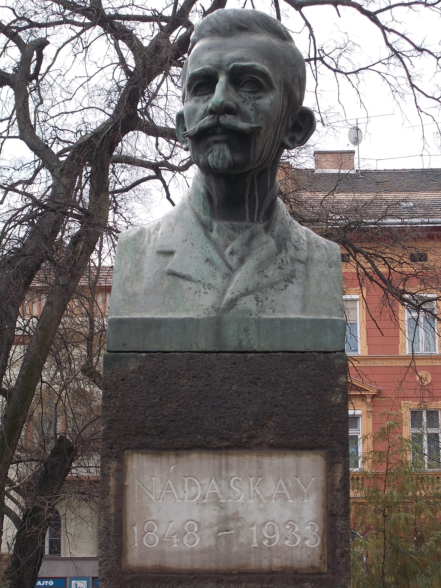 Bust of Béla Nádaskay, NW of the sculpture park of the University of Veterinary Science (UVS). - 2 István Street, Budapest District VII.